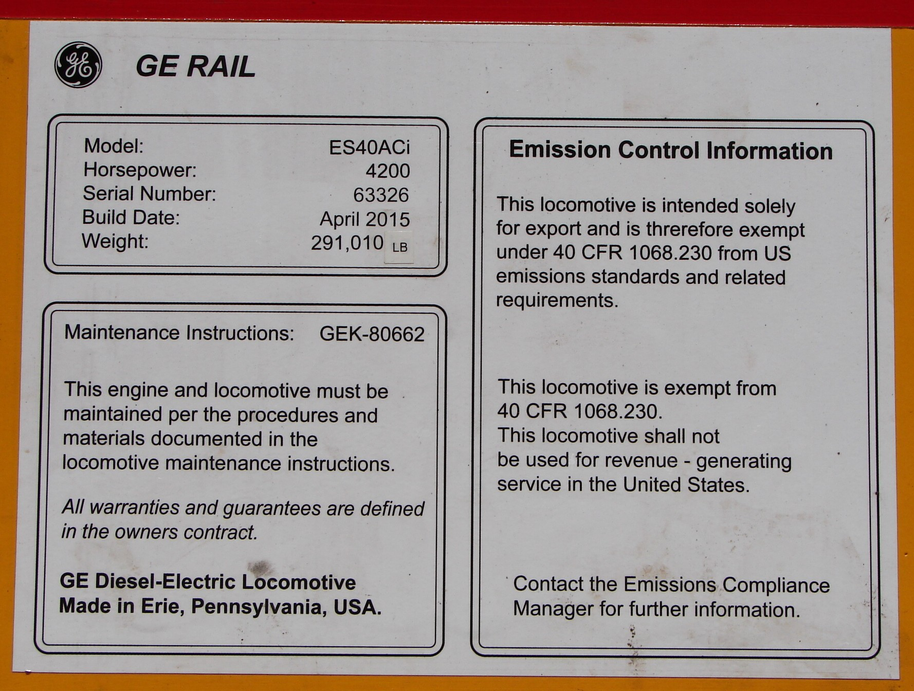 South African Class 44-000 no. 44-002 works "plate" (sticker)Type: GE ES40ACiBuilder's no.: 63326/2015-04Location: Pyramid South, Gauteng